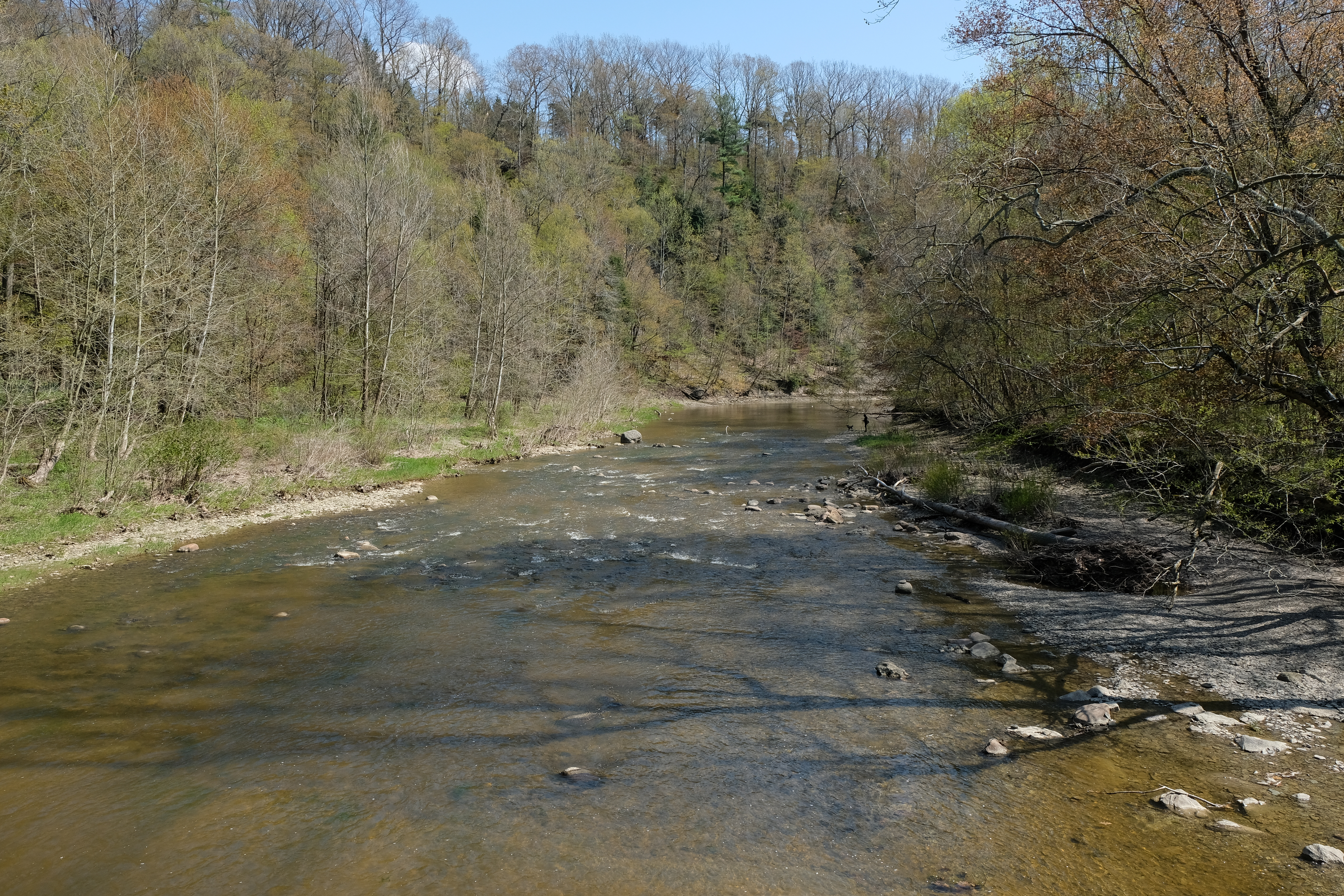 The Ashtabula River as viewed from the Riverview Covered Bridge on the boundary of Plymouth Township (left) and Ashtabula Township (right) in Ashtabula County, Ohio.